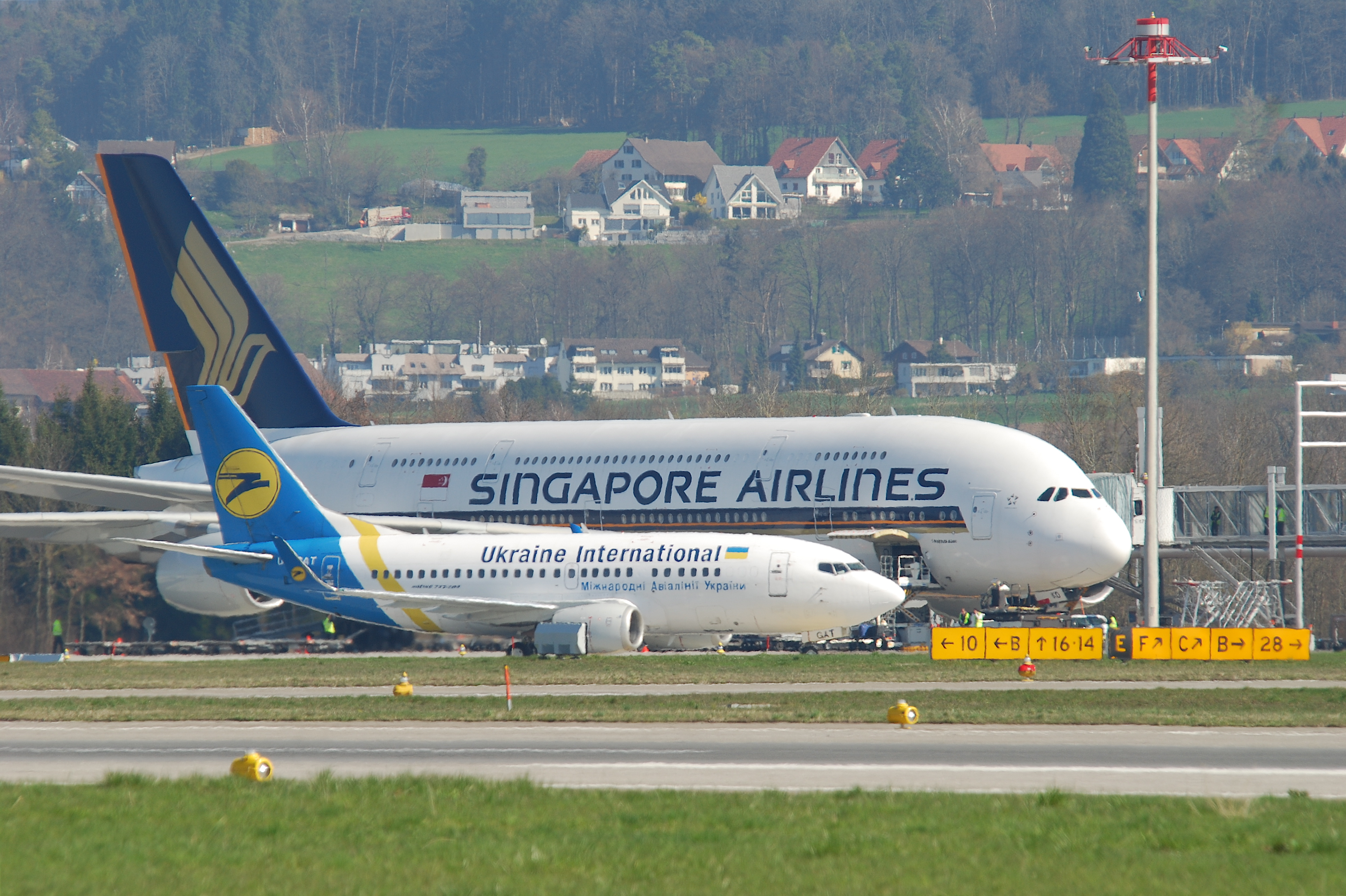 Size comparison; Baby Boeing and Giant Airbus...